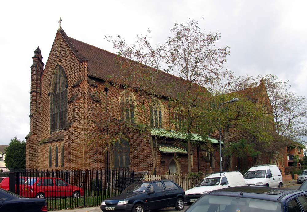 St Luke, Baxter Road, Great Ilford